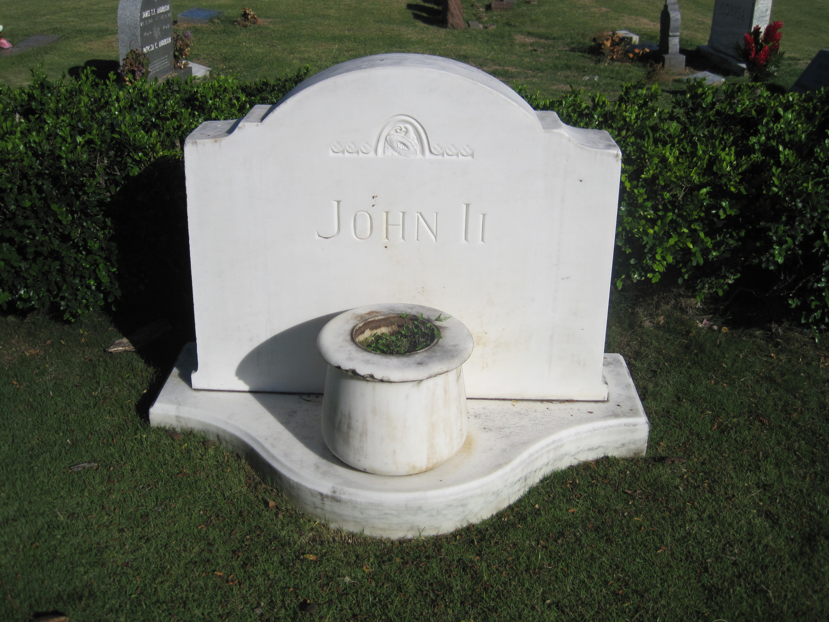 Tombstone of John Papa ʻĪʻī, Oahu Cemetery, Honolulu, Hawaii